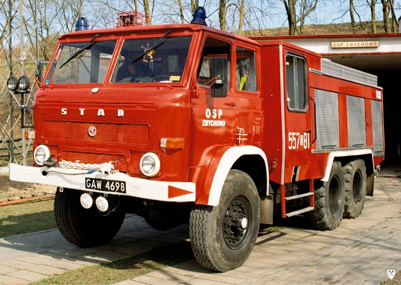 Polish fire engine Star 266, of the Voluntary Fire Brigade in Zbychowo